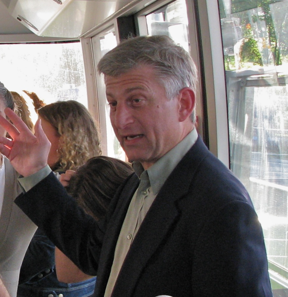 Willamette Week editor Mark Zusman on board the Portland Aerial Tram in 2007. (Photographer's caption on Flickr: Mark Zusman tells us the story behind the Portland Aerial Tram as we wait for the ride up to begin.)